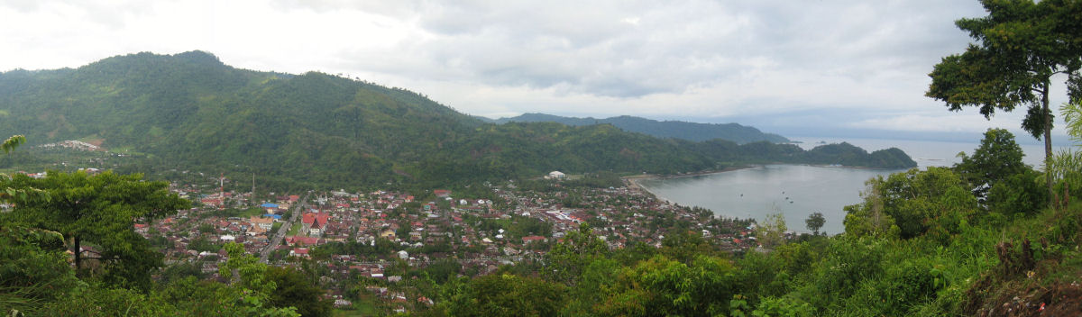 View of Painan from a nearby hilltop